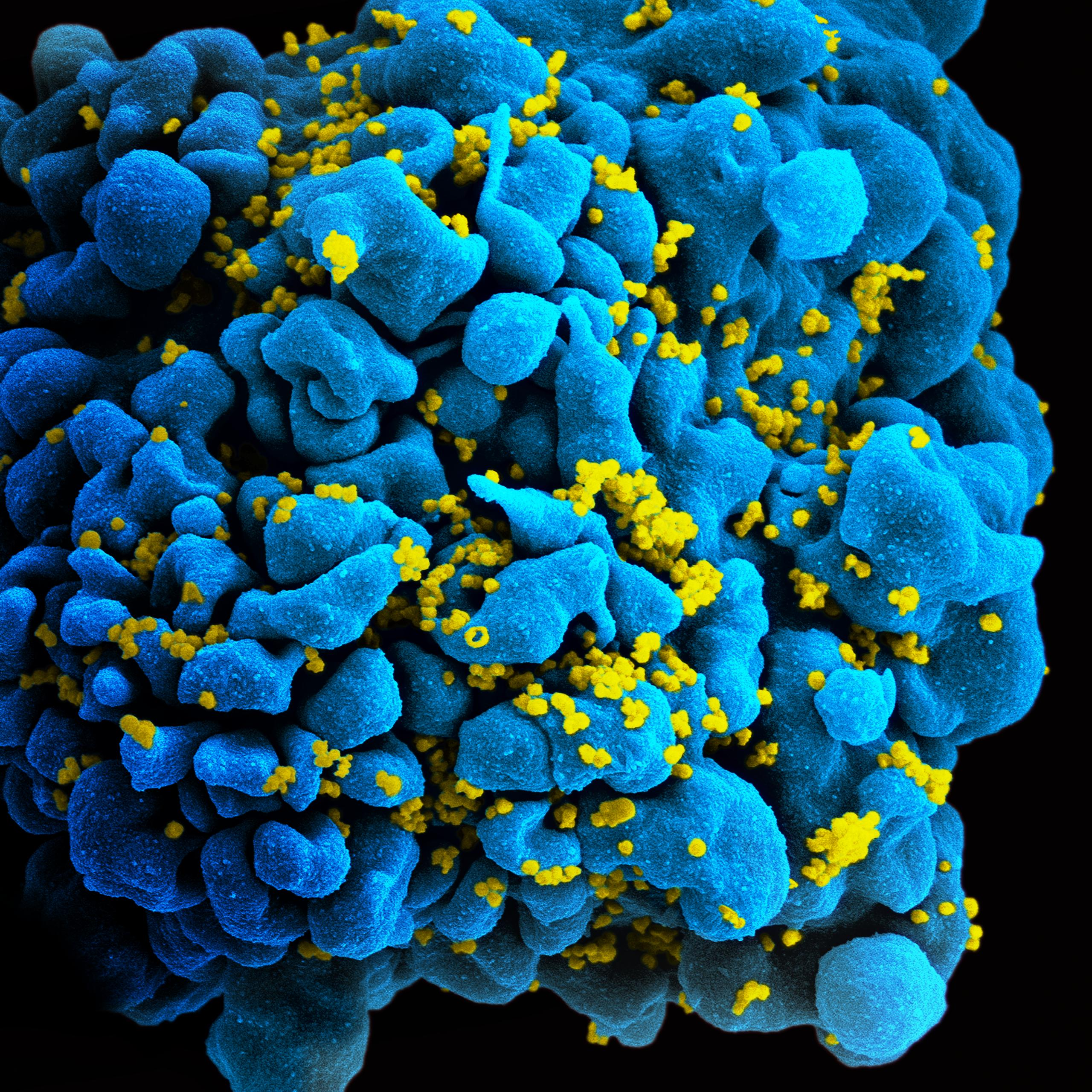 Scanning electromicrograph of an HIV-infected T cell. Credit: NIAID